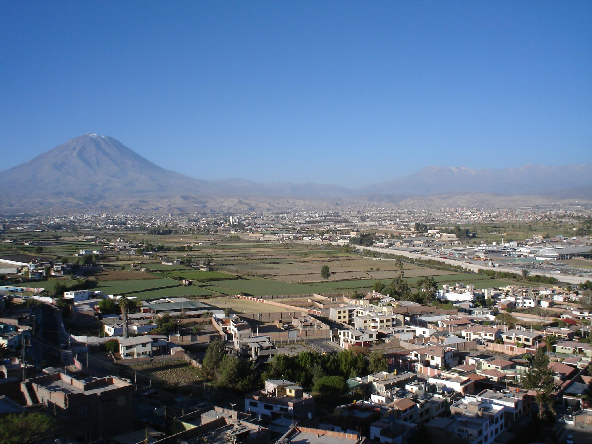 Arequipa view